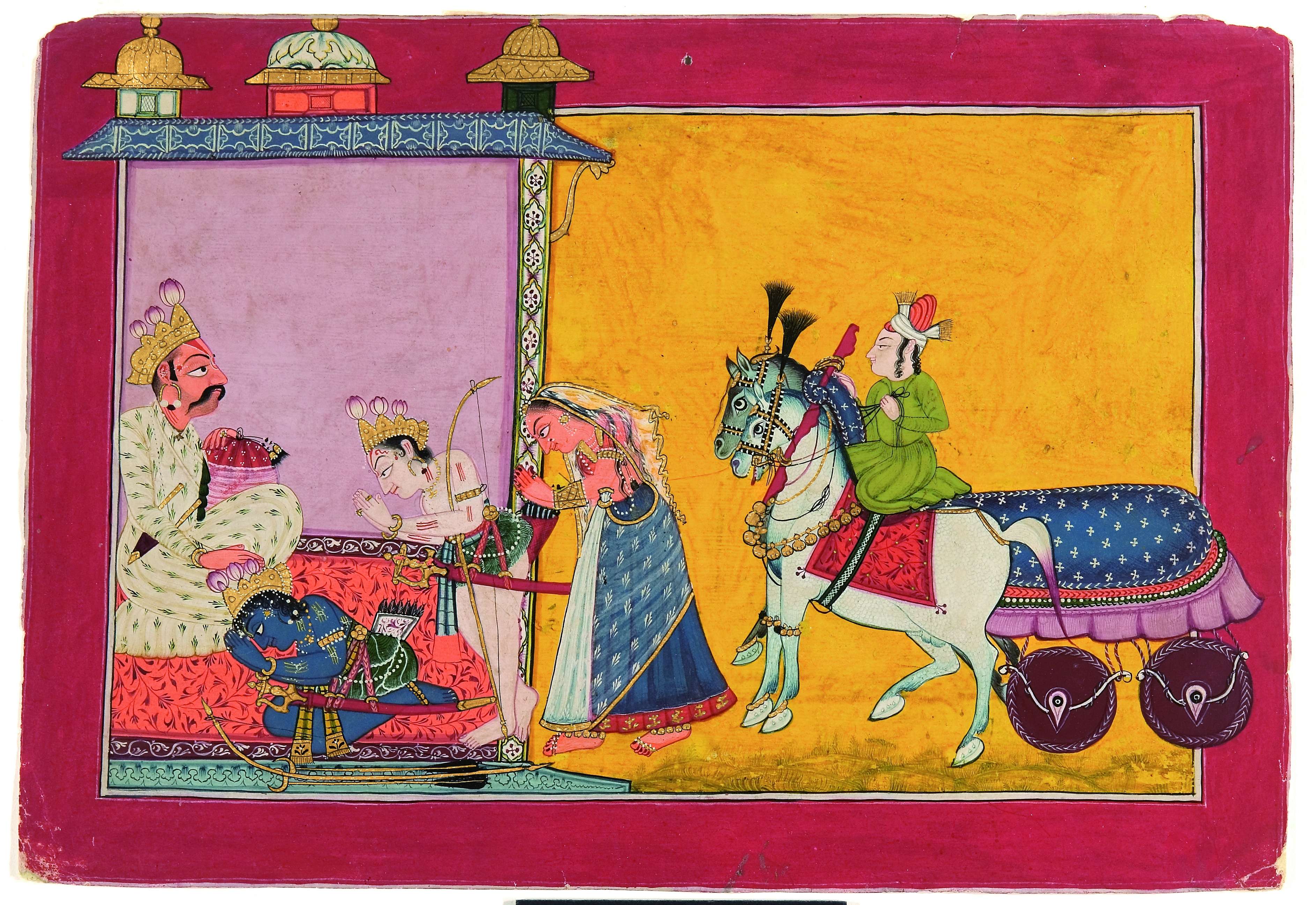 The Exiles Take Leave: Rama, Lakshmana and Sita with King Dasharatha. From the collection: The San Diego Museum of Art